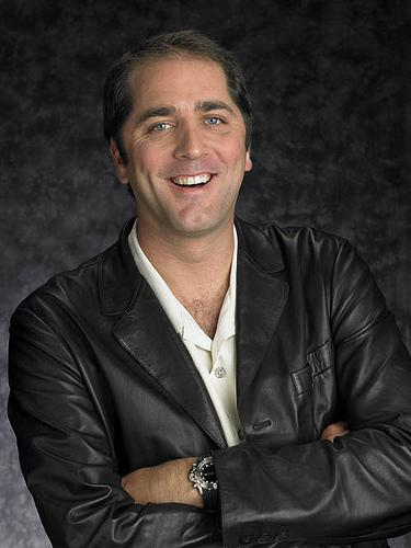 Phil Gordon, a professional poker player from the United States.